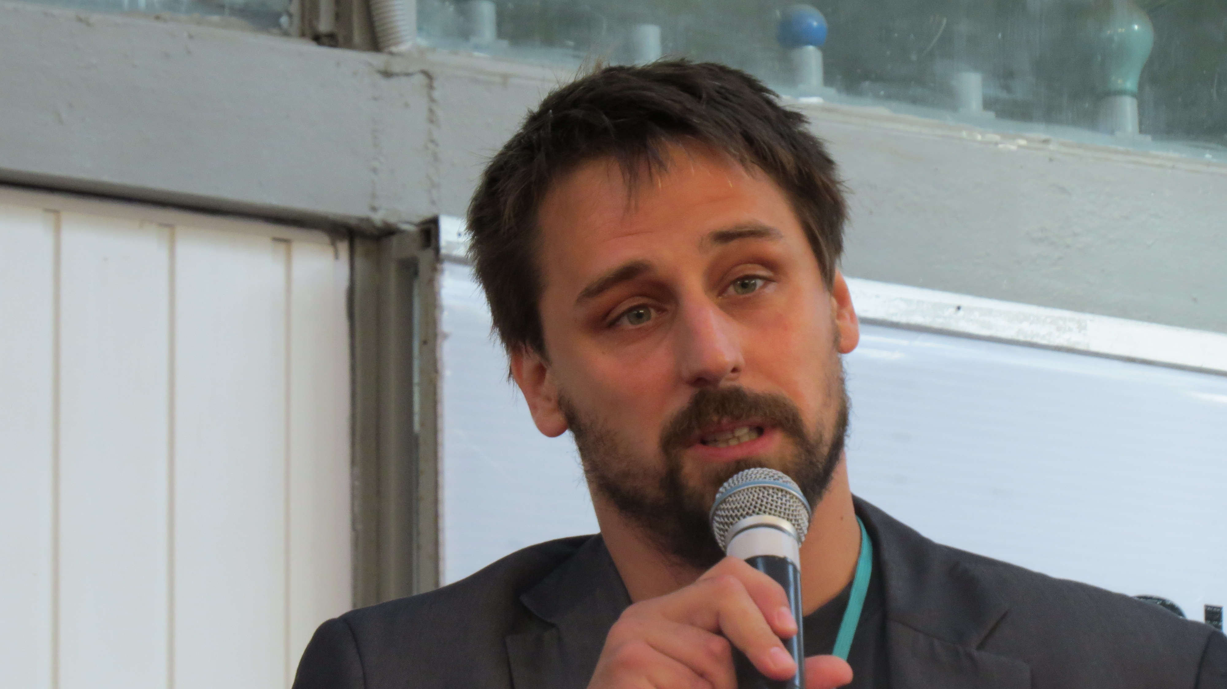 Voices International Festival 2015 in Vologda.